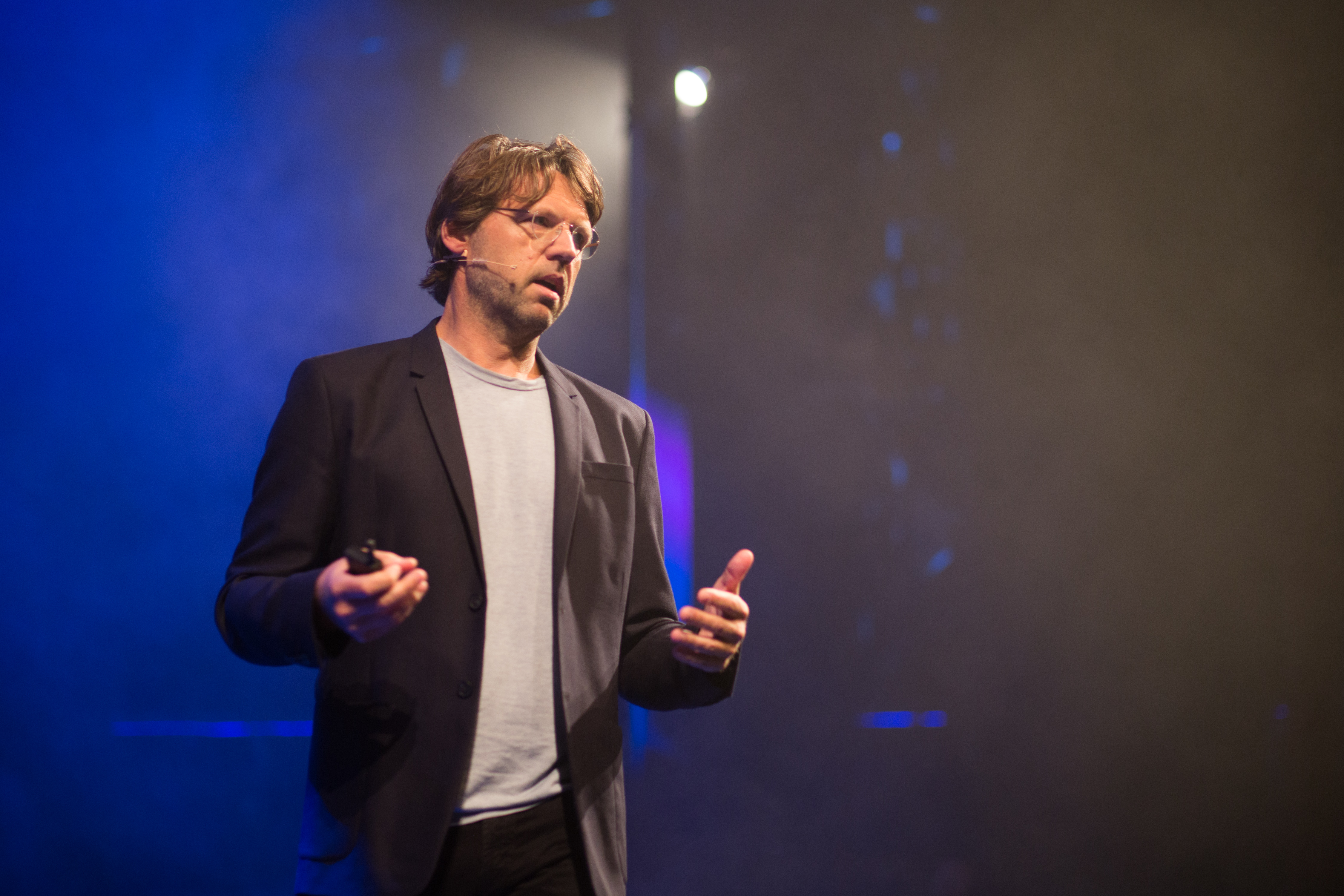 The SingularityU The Netherlands Summit 2016 took place on September 12 & 13 in Amsterdam, The Netherlands. The Netherlands Summit was aimed at bringing awareness about exponential technologies and their impact on business and policy. The theme of the summit was "Reality Check - Fast-Forward into our Future". For more information